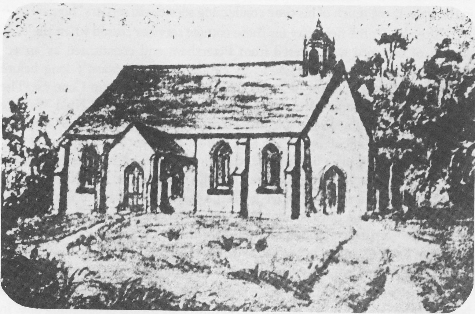 The original St John the Baptist Anglican Church, Ashfield, Sydney, Australia, built in the 19th century